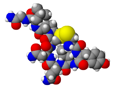 Spacefilling model of oxytocin. Created using ACD/ChemSketch 8.0, ACD/3D Viewer and The GIMP.